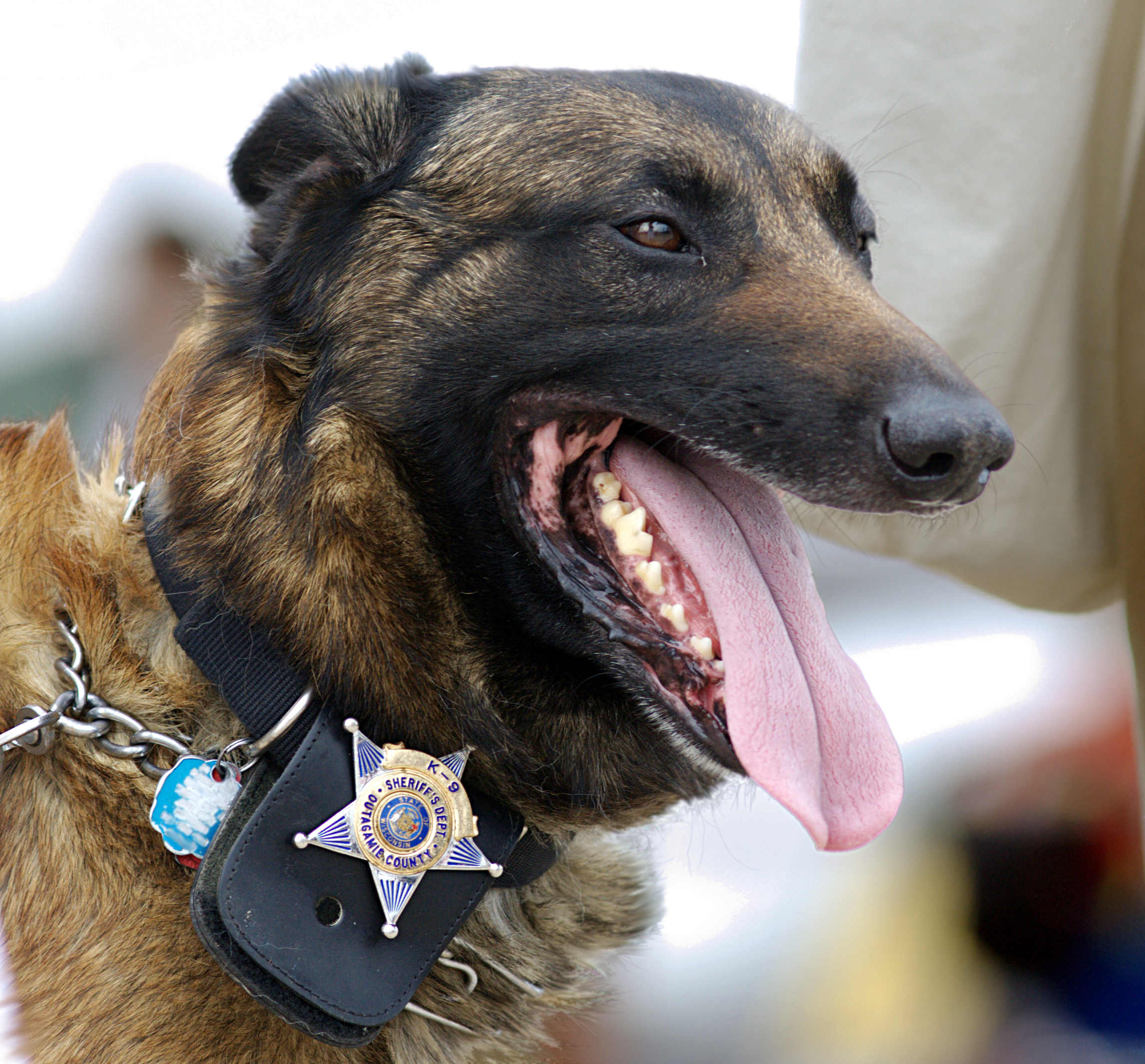 Police Dog of the Outagamie County, Wisconsin Sheriff's Department.